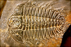 Trilobite in Burgess Shale